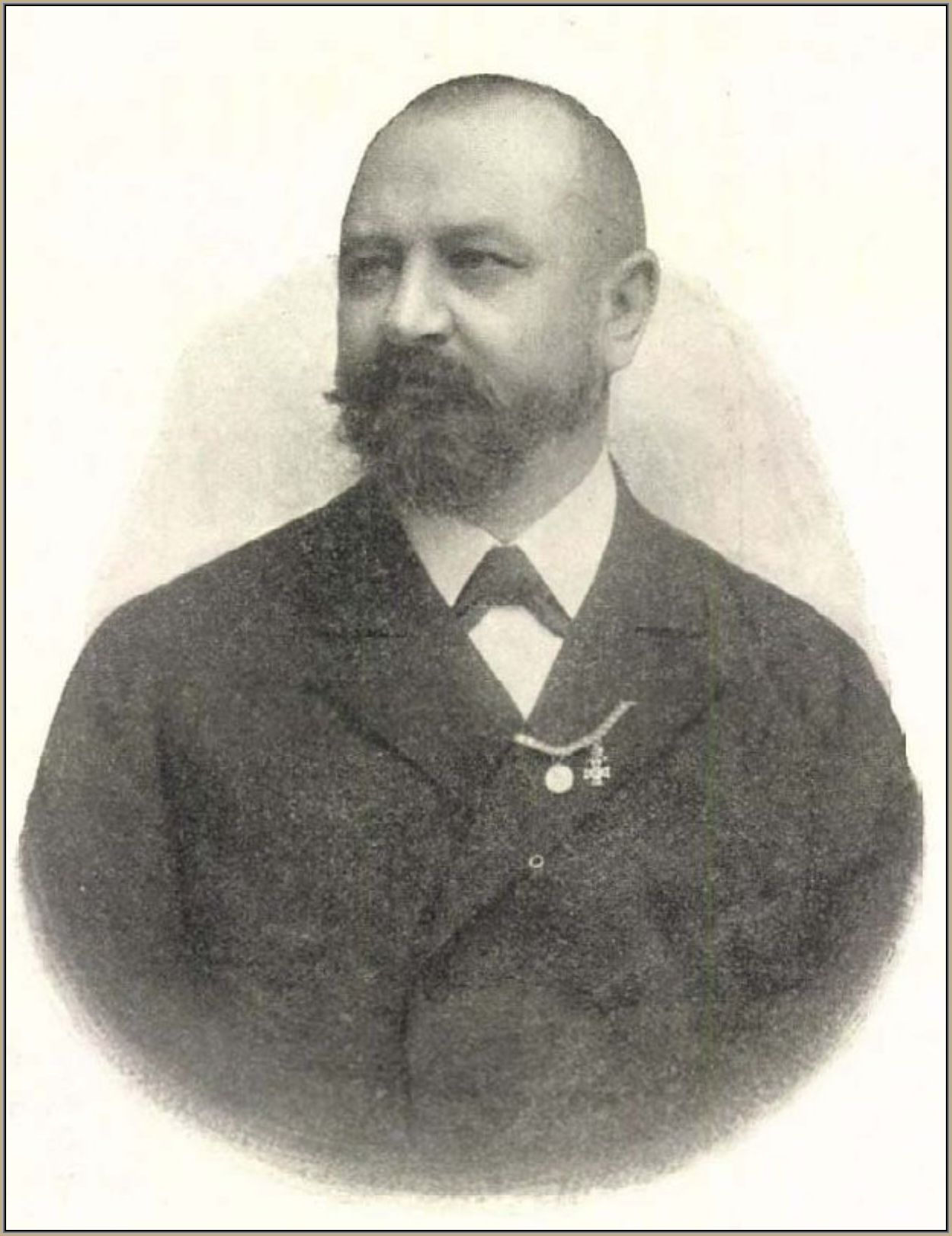 Portrait of Ferenc Székely